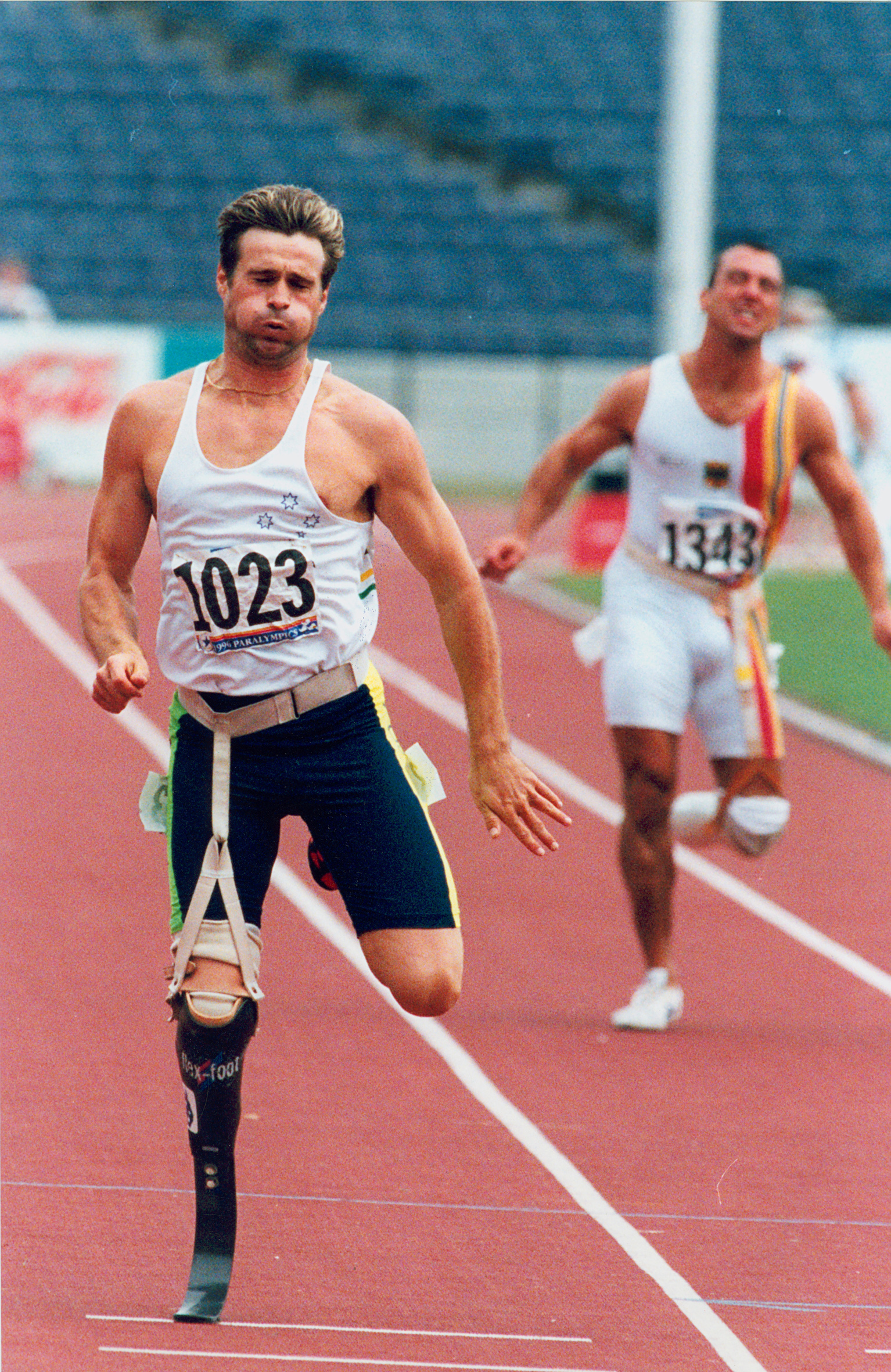 Australian athlete Neil Fuller on his way to a silver medal in the T44 200m event at the 1996 Atlanta Paralympic Games